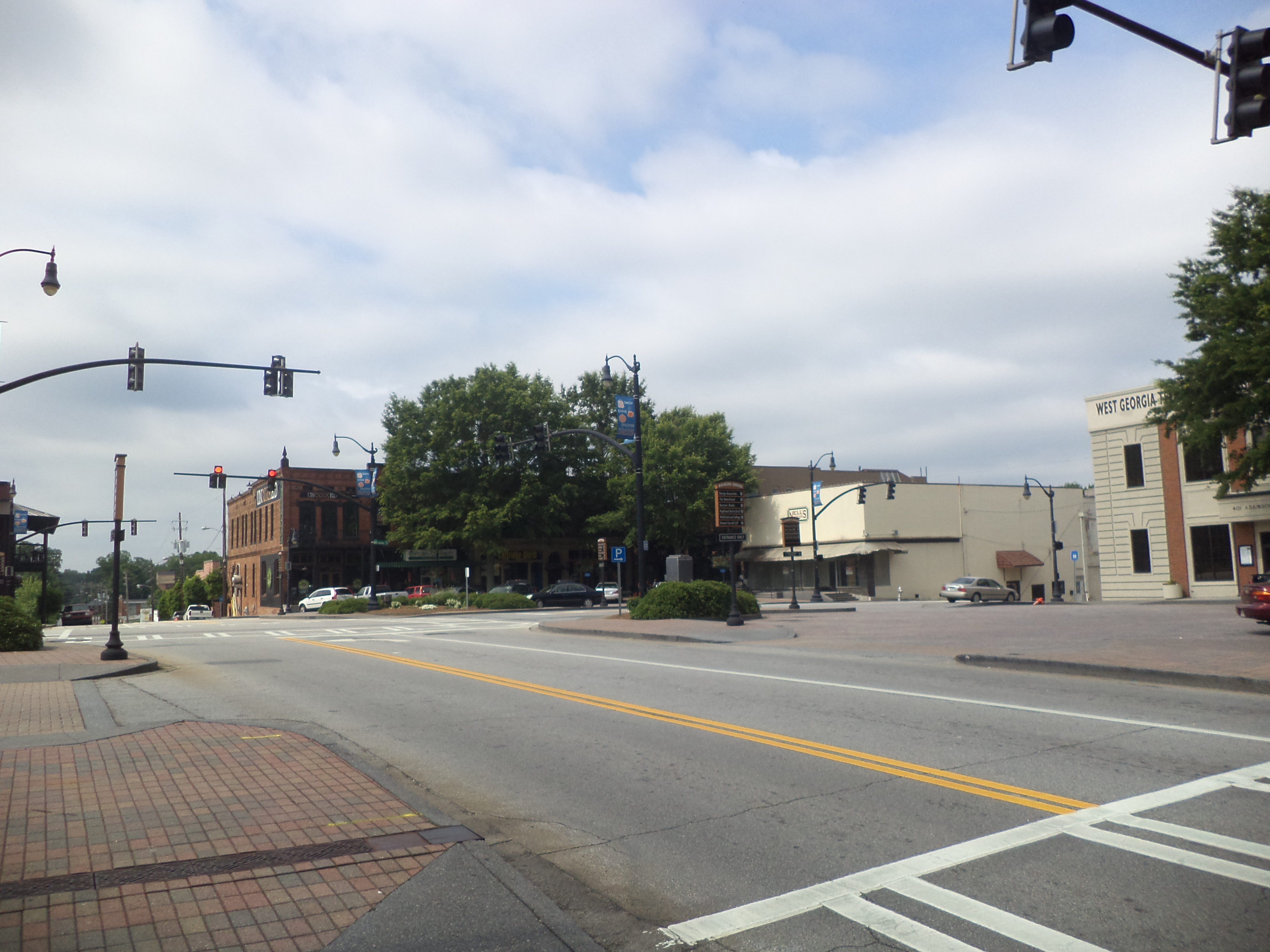 Adamson Square (from North), Carrollton, Carroll County, Georgia